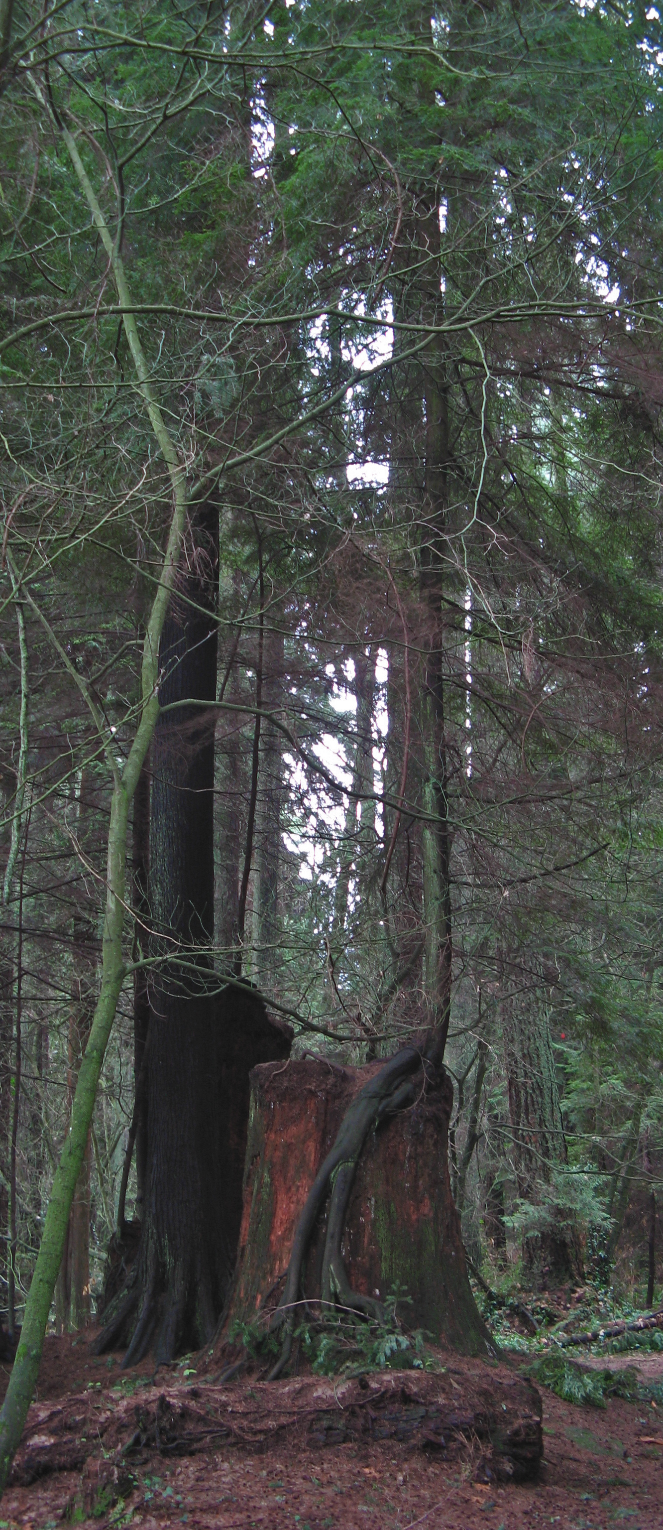 Tree on tree, Stanley Park, Vancouver, Canada